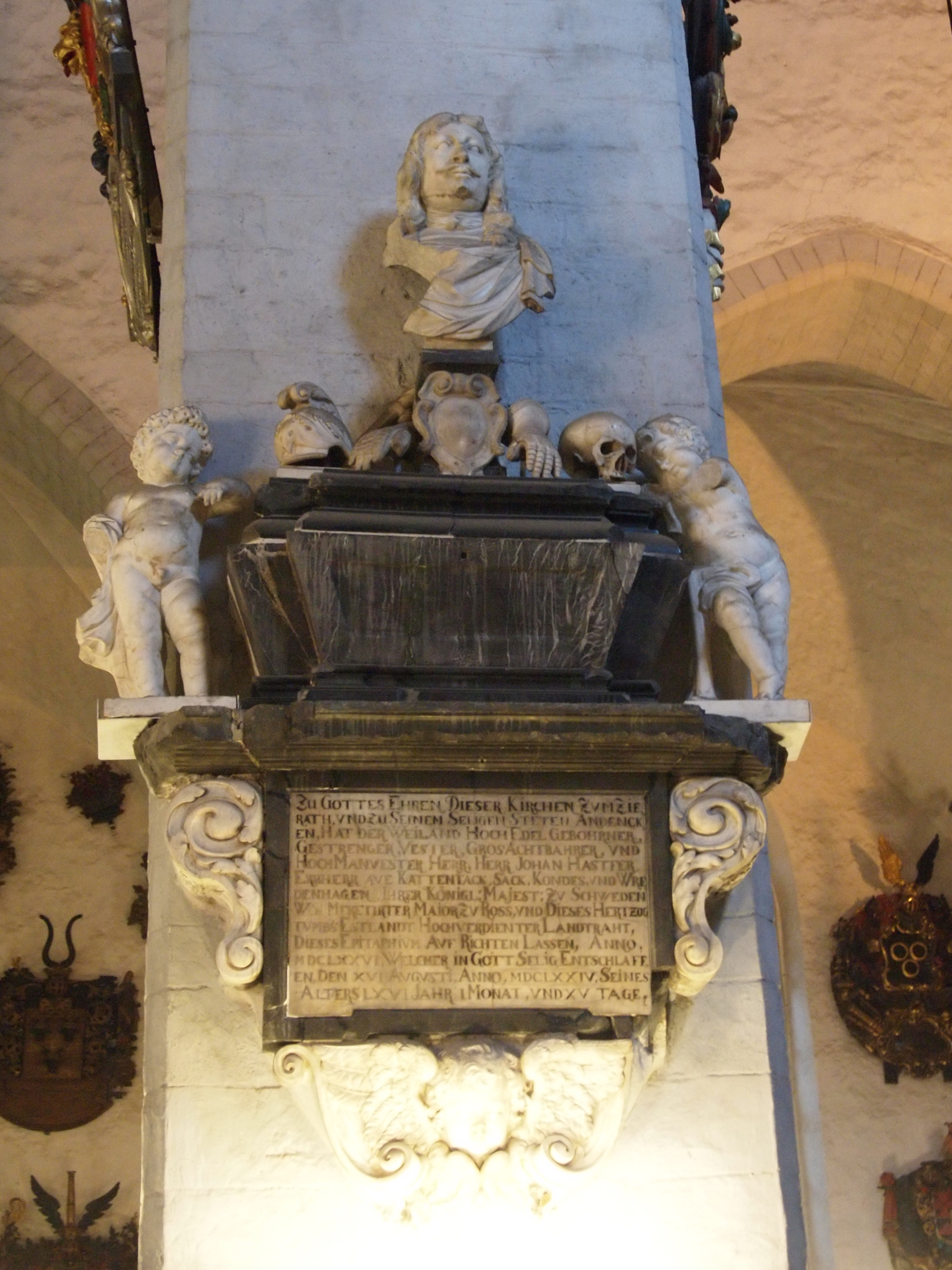 Epitaph for Johann von Hastfer in Saint Mary's Cathedral, Tallinn